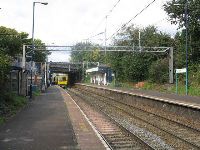 Hamstead railway station Original description: Hamstead station A train from Birmingham to Walsall is leaving.